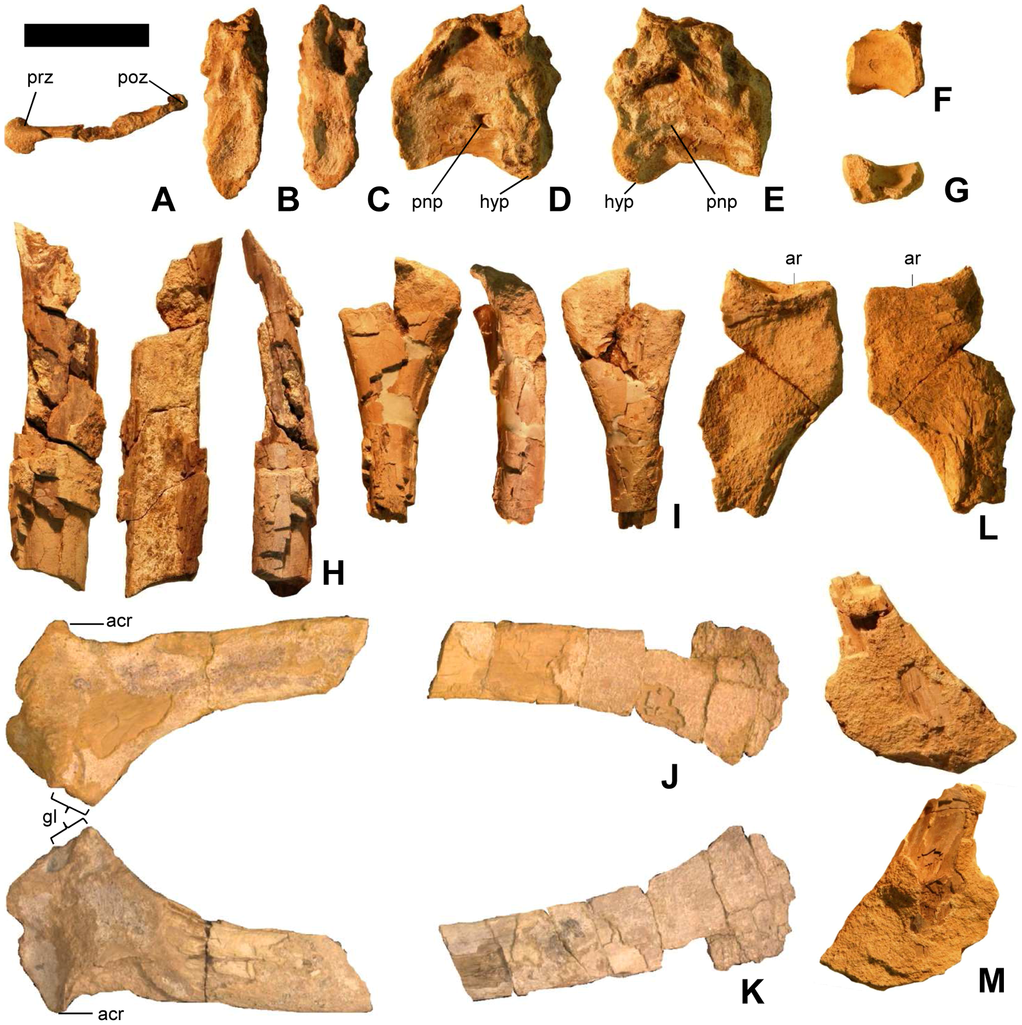 Vertebrae, scapula, forelimb bones, and pelvic bones of Martharaptor greenriverensis (UMNH VP 21400). (A)–Partial cervical neural arch, dorsal view. (B–E)–Cranial dorsal centrum in cranial (B), caudal (C), right lateral (D), and left lateral (E) views. (F–G)–Distal caudal centrum in lateral (F) and ventral (G) views. (H)–Possible ulna. (I)–Possible radius. (J–K)–Left scapula in lateral (J) and medial (K) views. (L)–Proximal end of ischium. (M)–Possible distal end of pubis Scale bar = 50 mm. acr = acromium process, ar = acetabular rim, gl = glenoid, hyp = hypapophysis, poz = postzygapophysis, pnp = pneumatopore, prz = prezygapophysis.